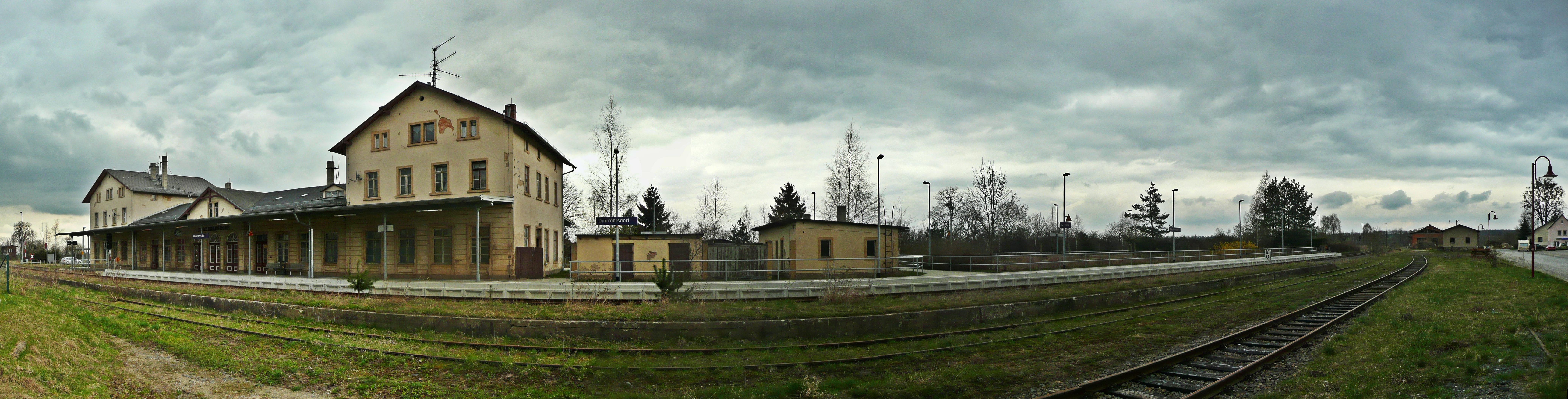 This image shows the station in Dürrröhrsdorf.